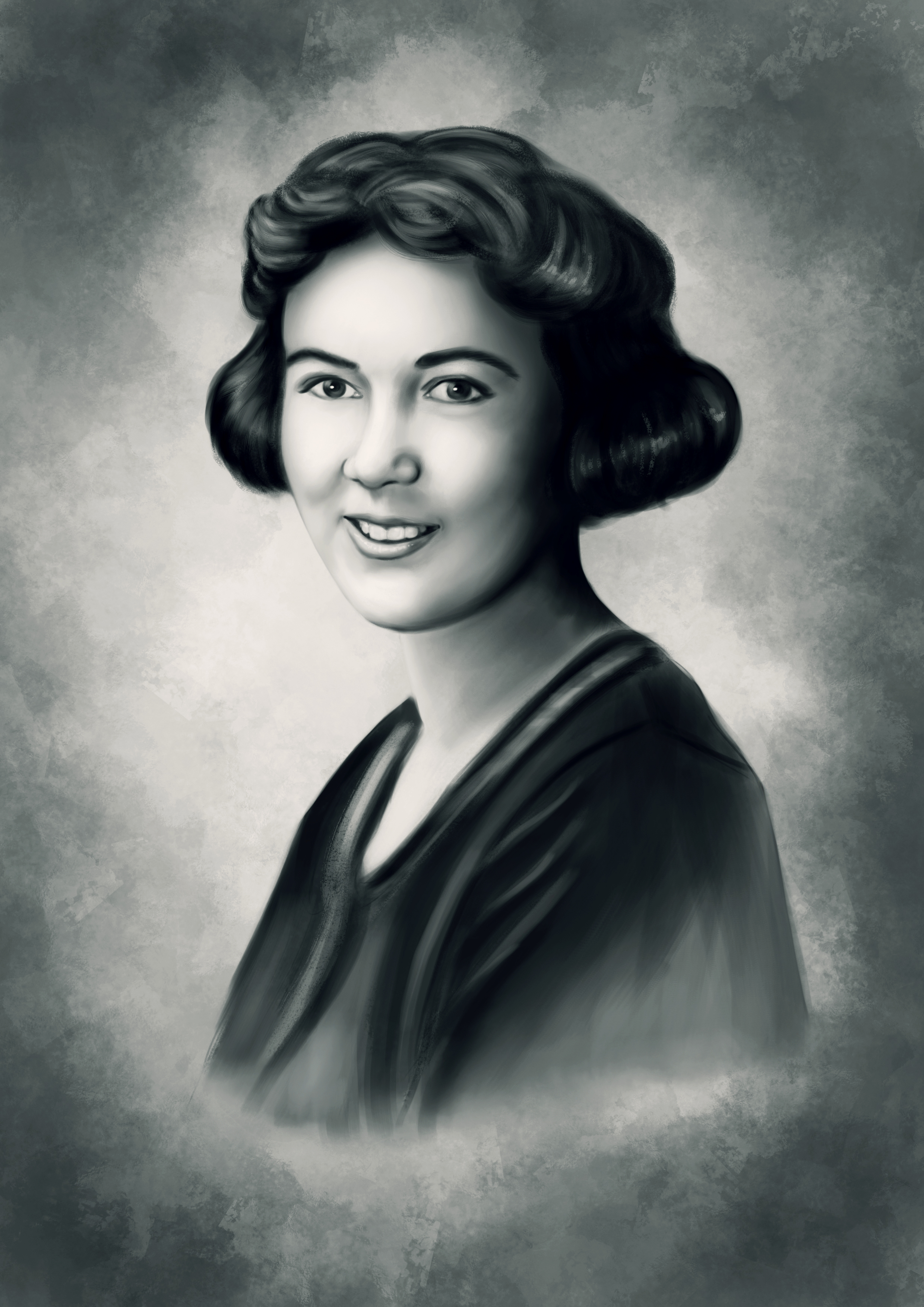 Artistic rendition of Annalee Skarin in her teens. This painting was made of an orphaned photograph in the public domain. Argentinian artist AleRafa created this painting under commission.